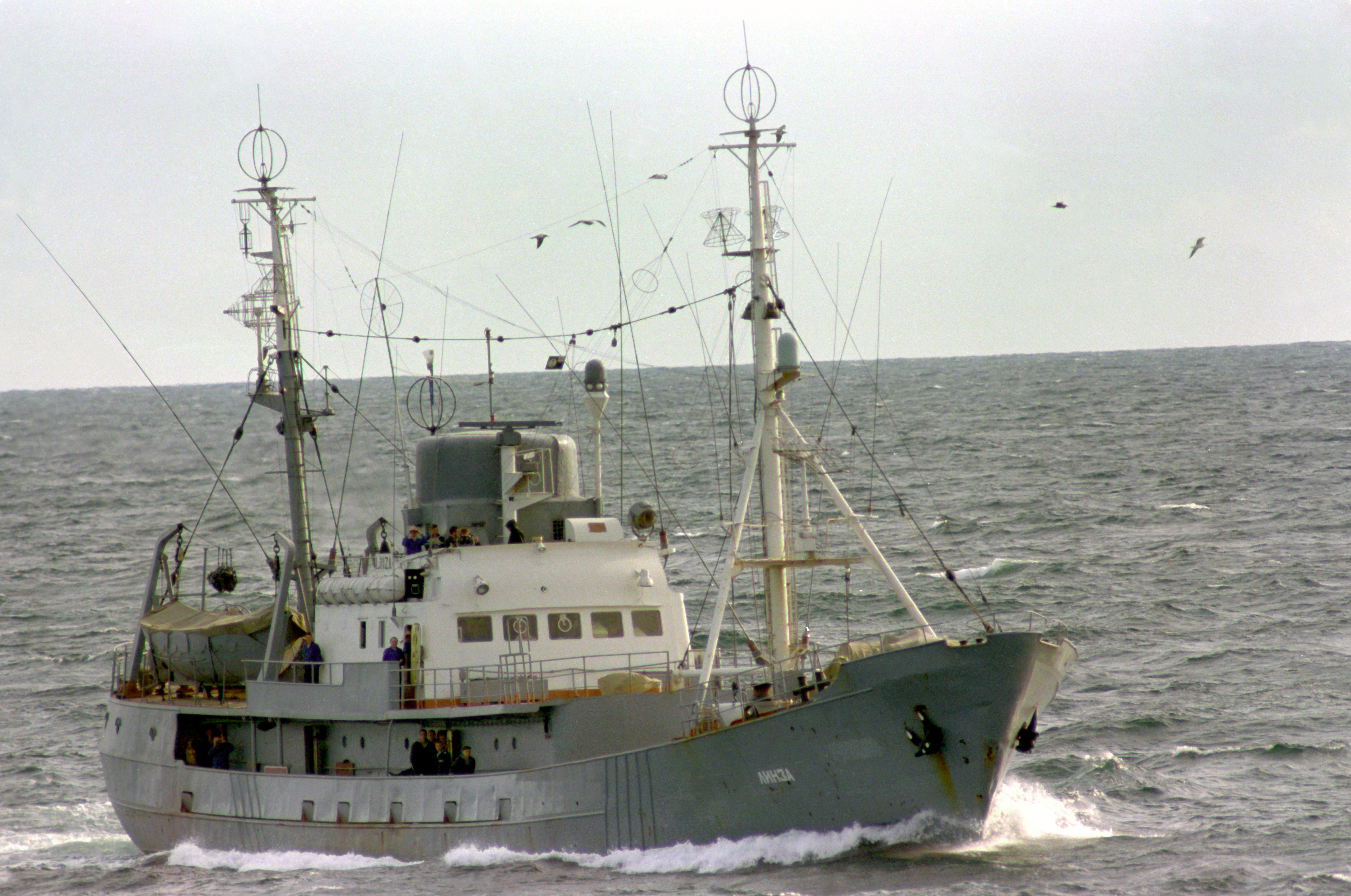 A starboard bow view of the Soviet Okean class intelligence collection ship LINZA underway. The ship is observing NATO ships participating in exercise Northern Wedding '86.